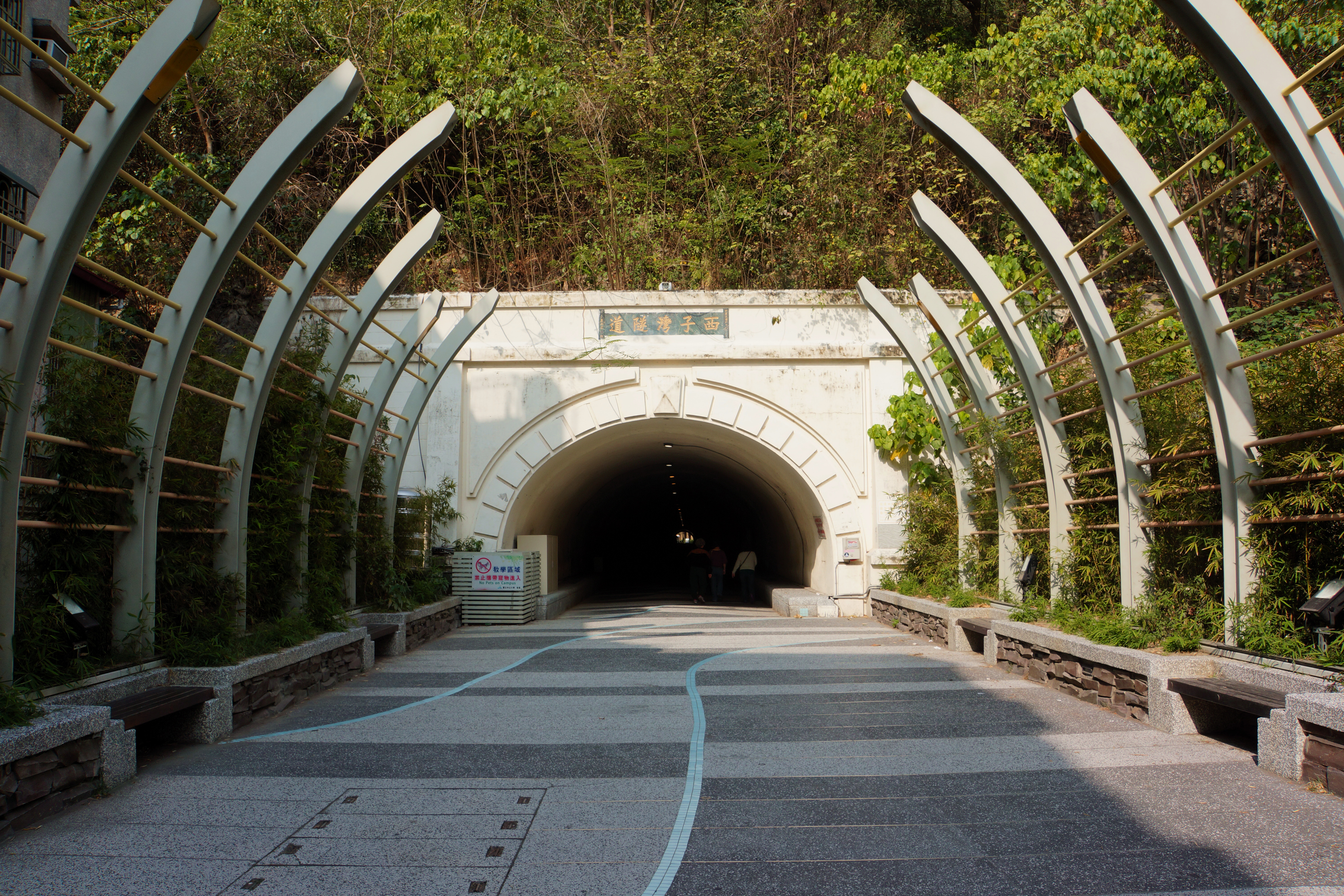 壽山洞 Shoushan Tunnel